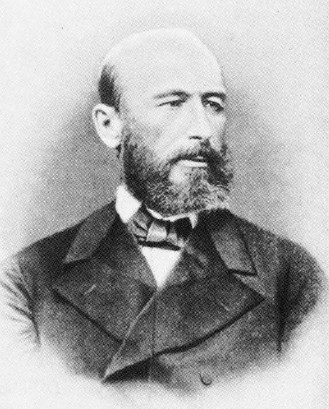 Picture of the Russian chemist, A. M. Butlerov